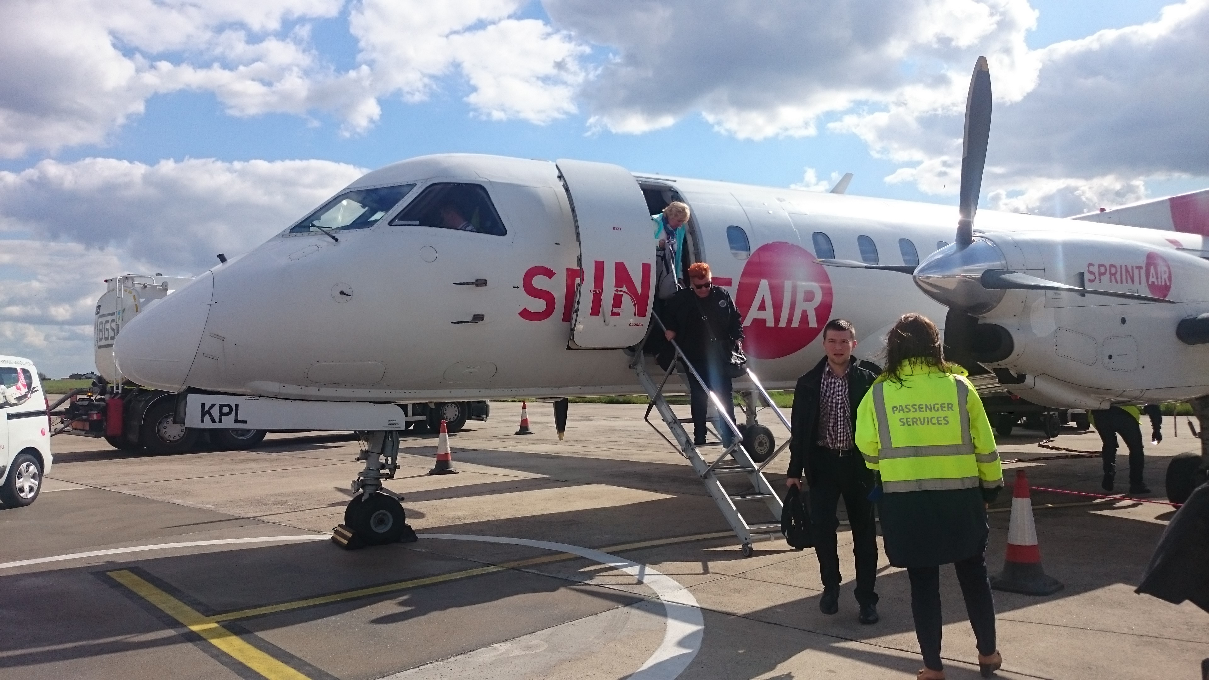 SP-KPL at Radom Airport